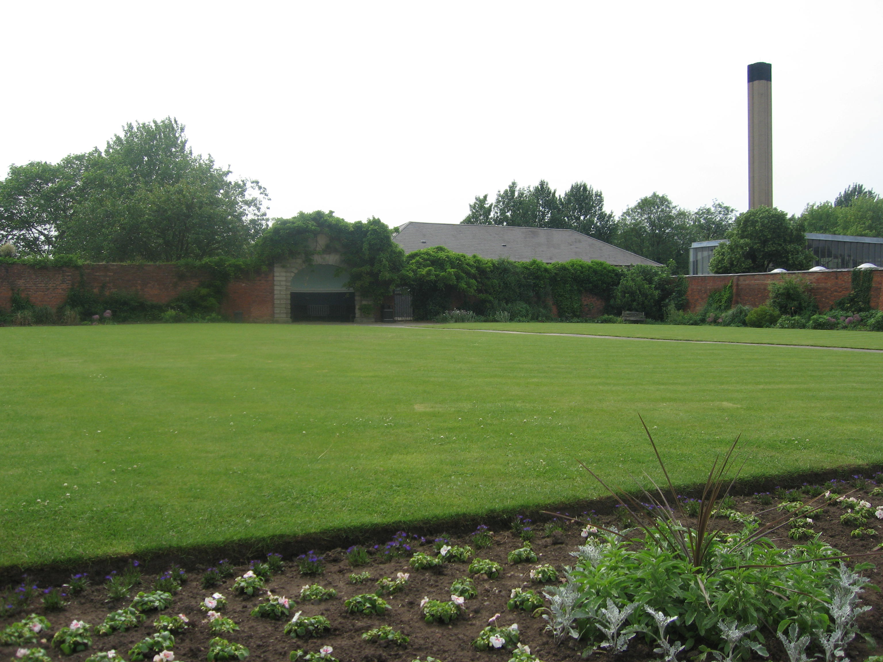 A picture across the walled garden at Loughborough University. This is one of the few remnants of Burleigh Hall.